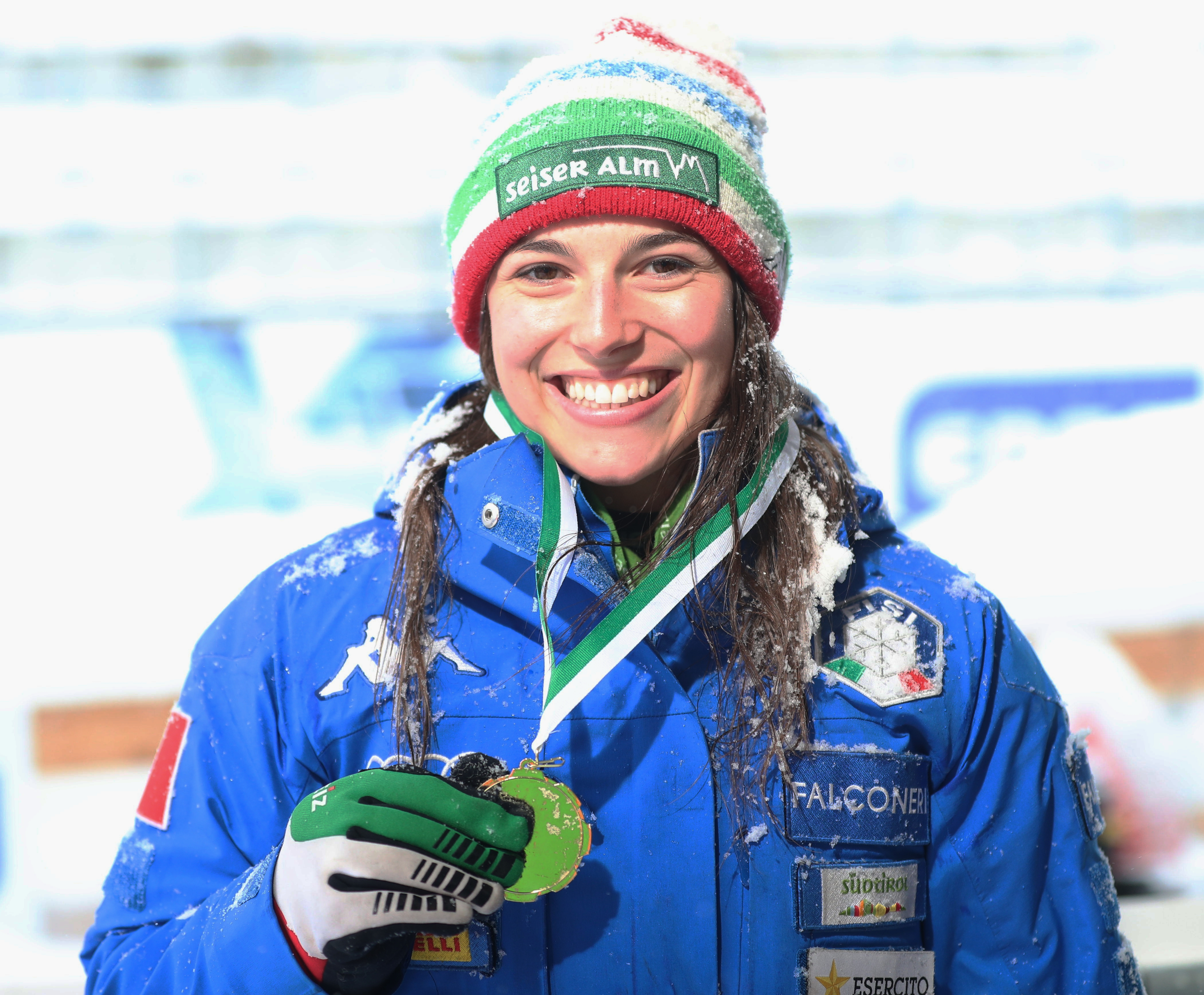 Women's World Cup victory ceremony at the 2018/19 Luge World Cup in Altenberg